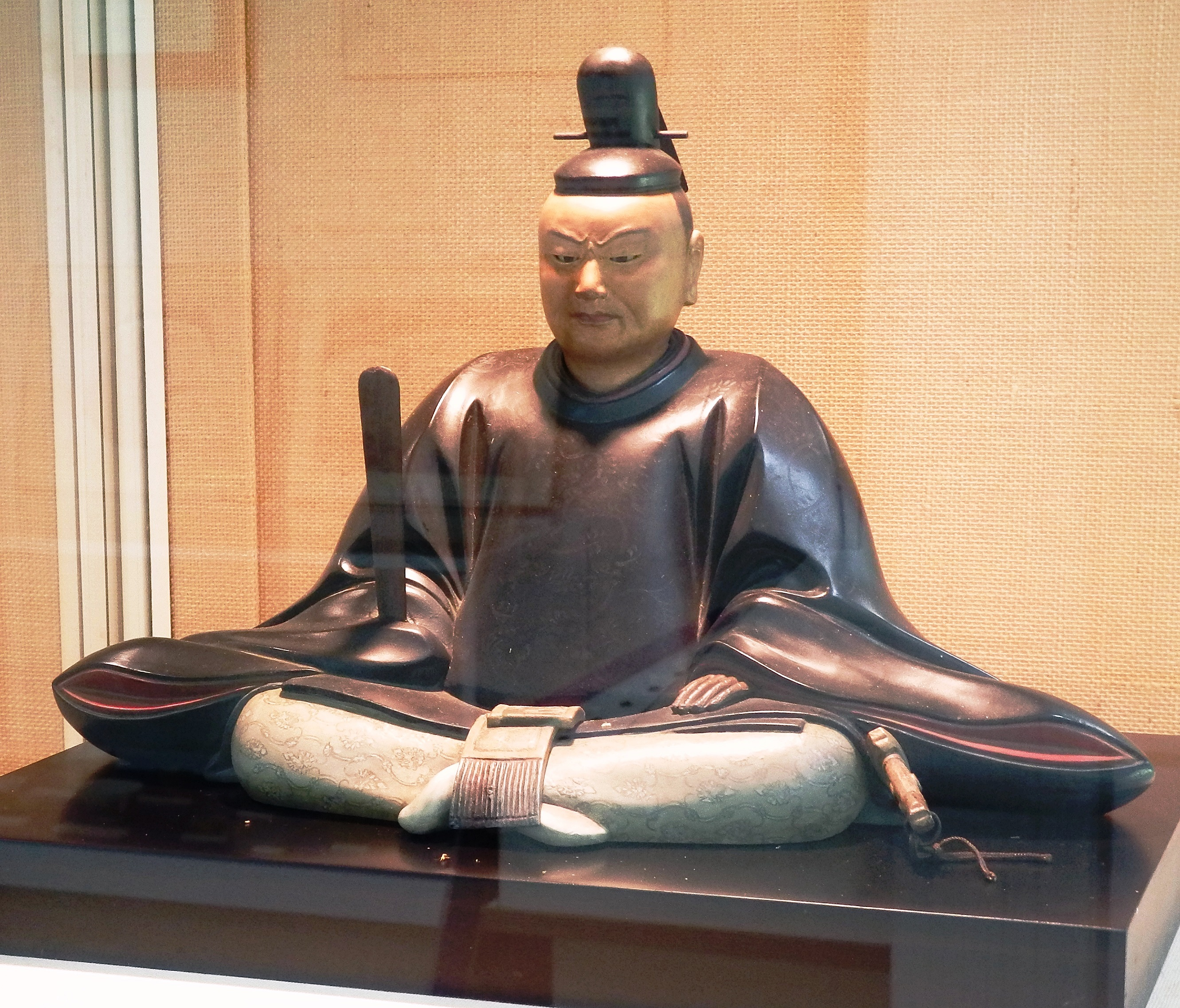 The seated figure of Ashikaga Yoshihide, in Awa-Kubo Minzoku Siryōkan, Anan, Tokushima, Japan